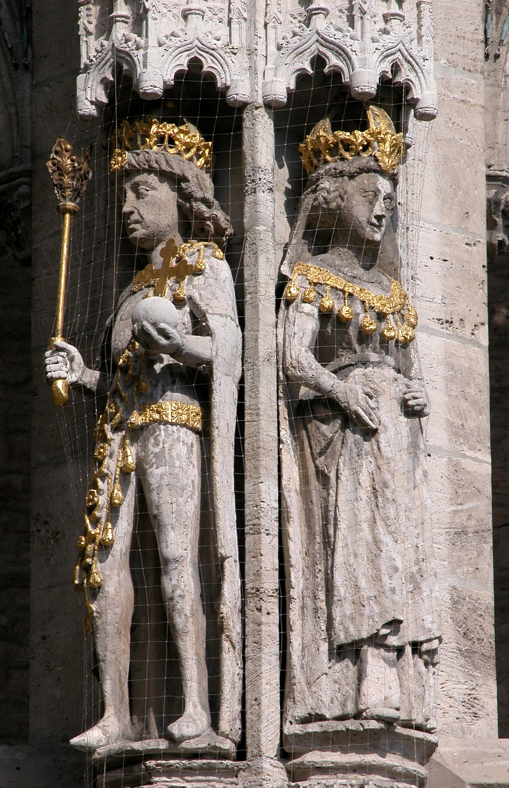 Braunschweig, Old town city hall: Statue of Otto IV and his second wife Mary of Brabant, c. 1455.